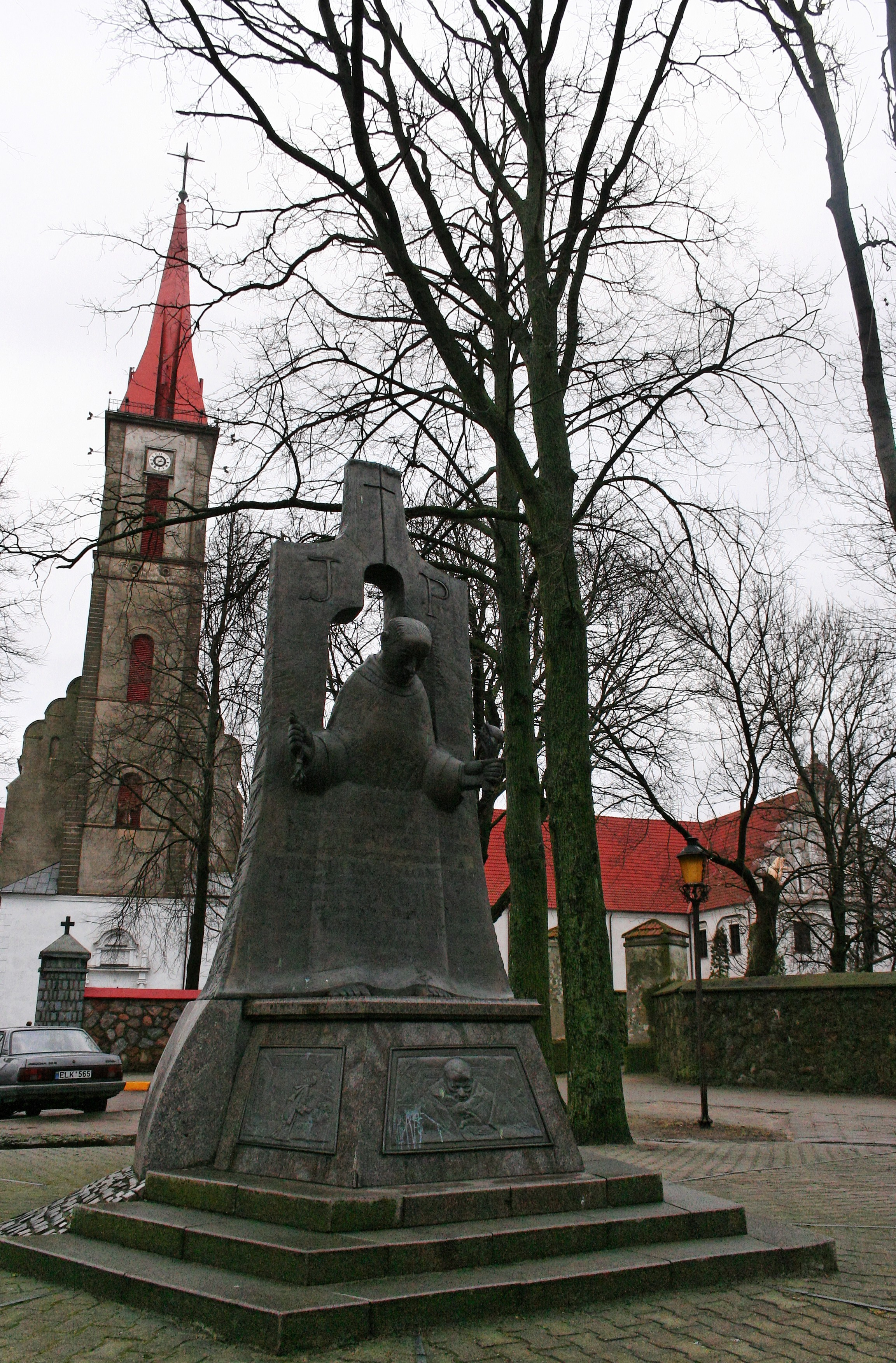 Kretinga city center: Jurgis Pabrėža monument in front of the church.